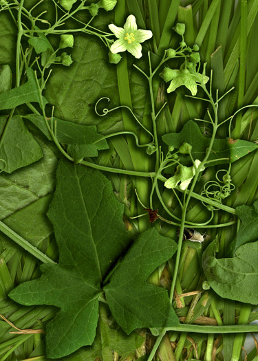 Scannography created by scanning herbs and flowers directly on a flatbed scanner. The flower is a "Bryonia dioica". It has been isolated from its background and replaced over the first scannography that consisted of grass and leaves. The original image has very high resolution and lots of details (you can check the details on this page : Scannography is a new medium that consists of not using a camera but capturing images (objects, portraits, flowers…) with a flatbed scanner. It is also called scanography, scan-Art, scanner-Art or scannogramms.